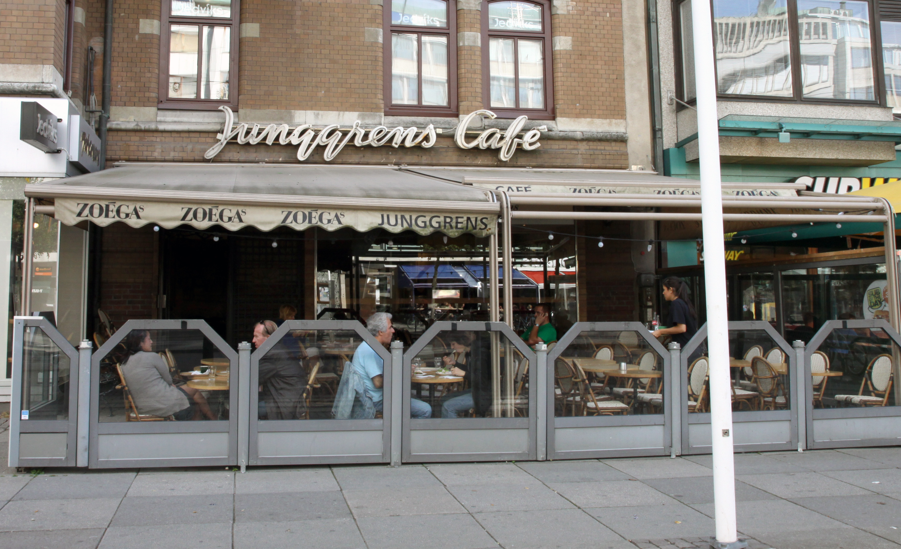 Junggrens café in Gothenburg, Sweden